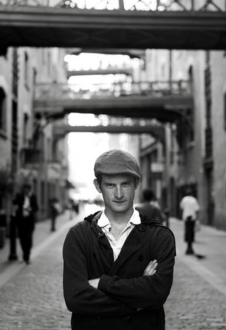 Anthony Strong at Shad Thames 2010